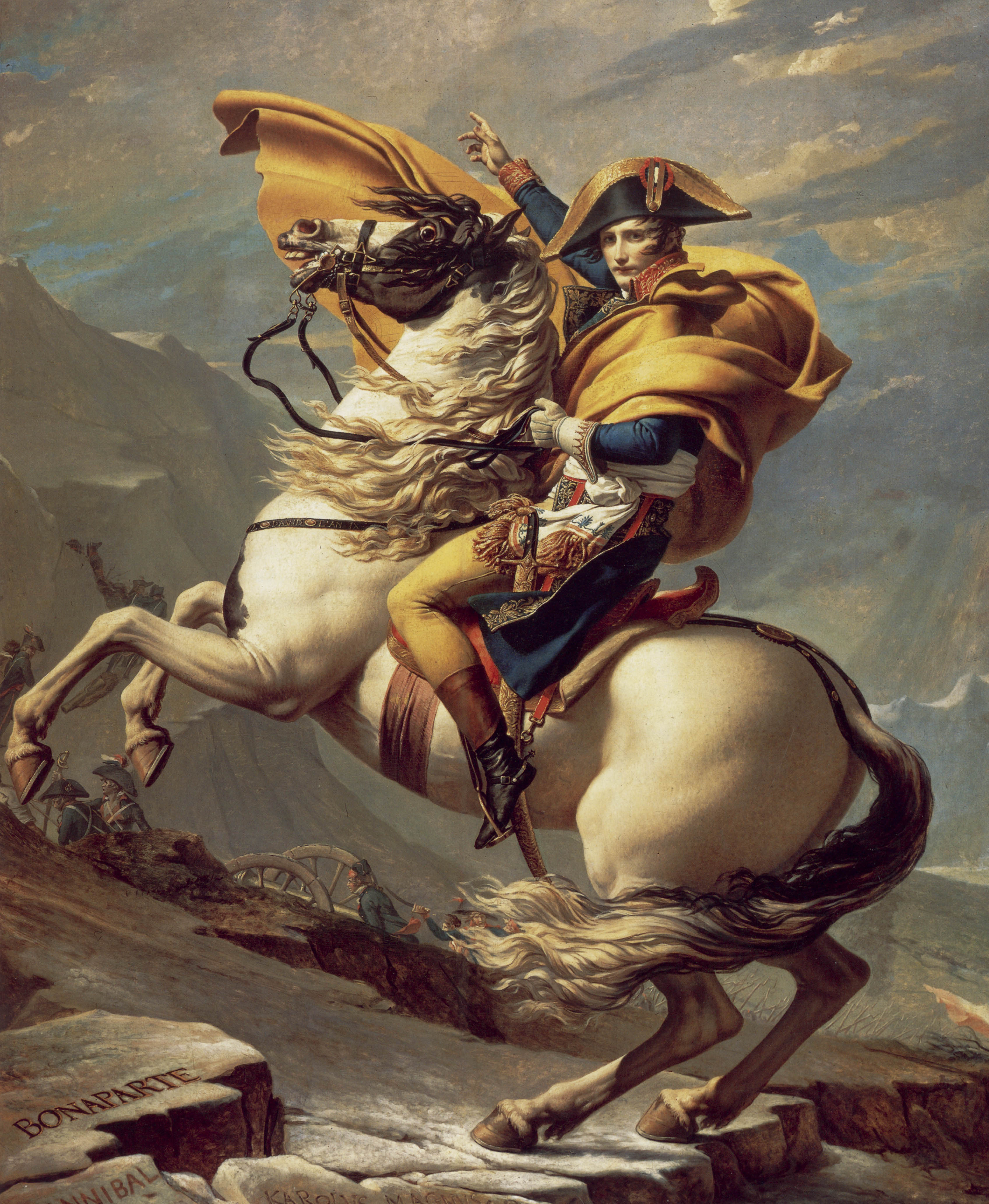 Bonaparte has an orange cloak, the crispin (cuff) of his gauntlet is embroidered, the horse is piebald, black and white, and the tack is complete and includes a standing martingale. The girth around the horse's belly is a dark faded red. The officer holding a sabre in the background is obscured by the horse's tail. Napoleon's face appears youthful.